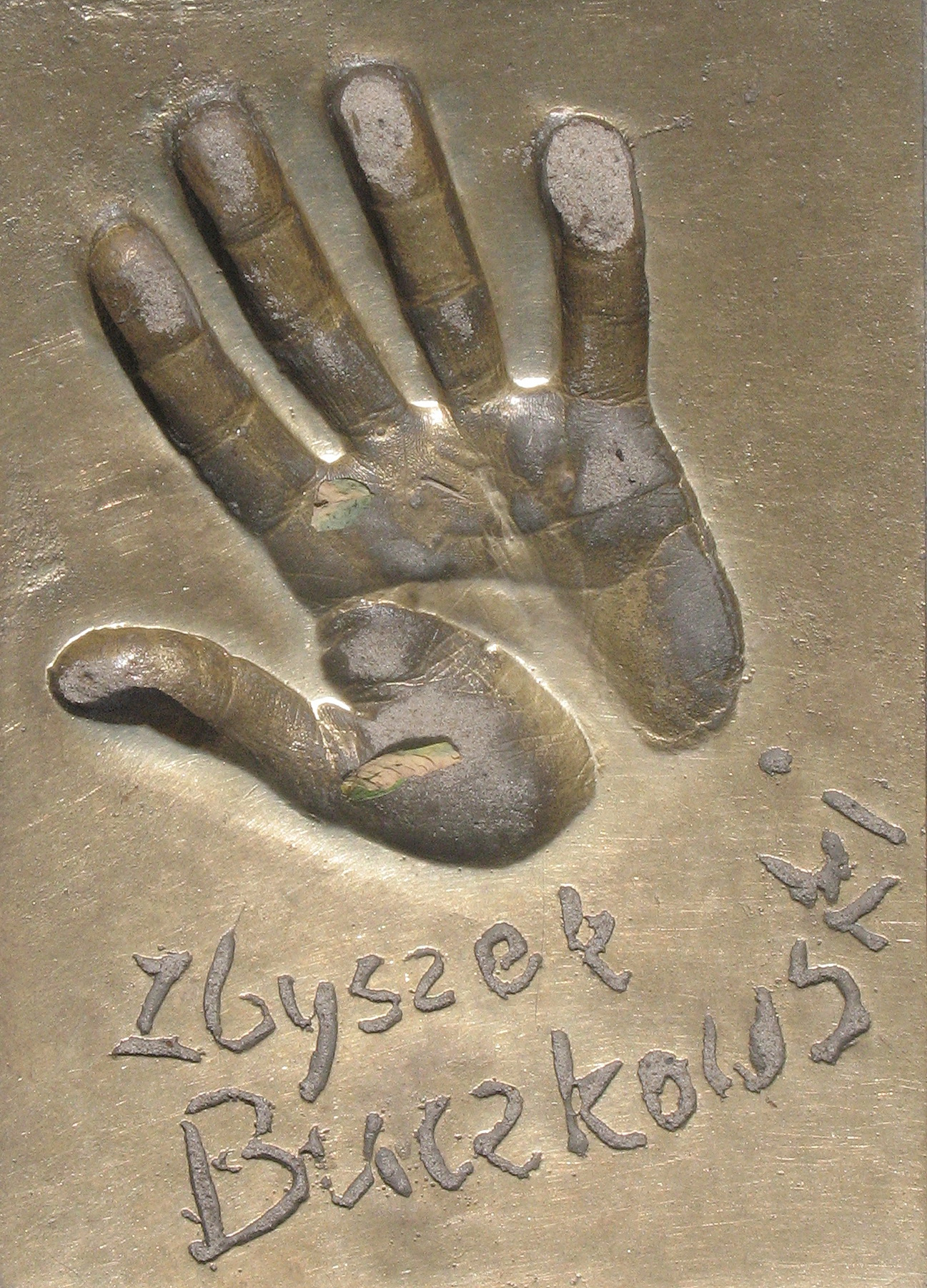 Zbigniew Buczkowski - handprint and signature in Międzyzdroje